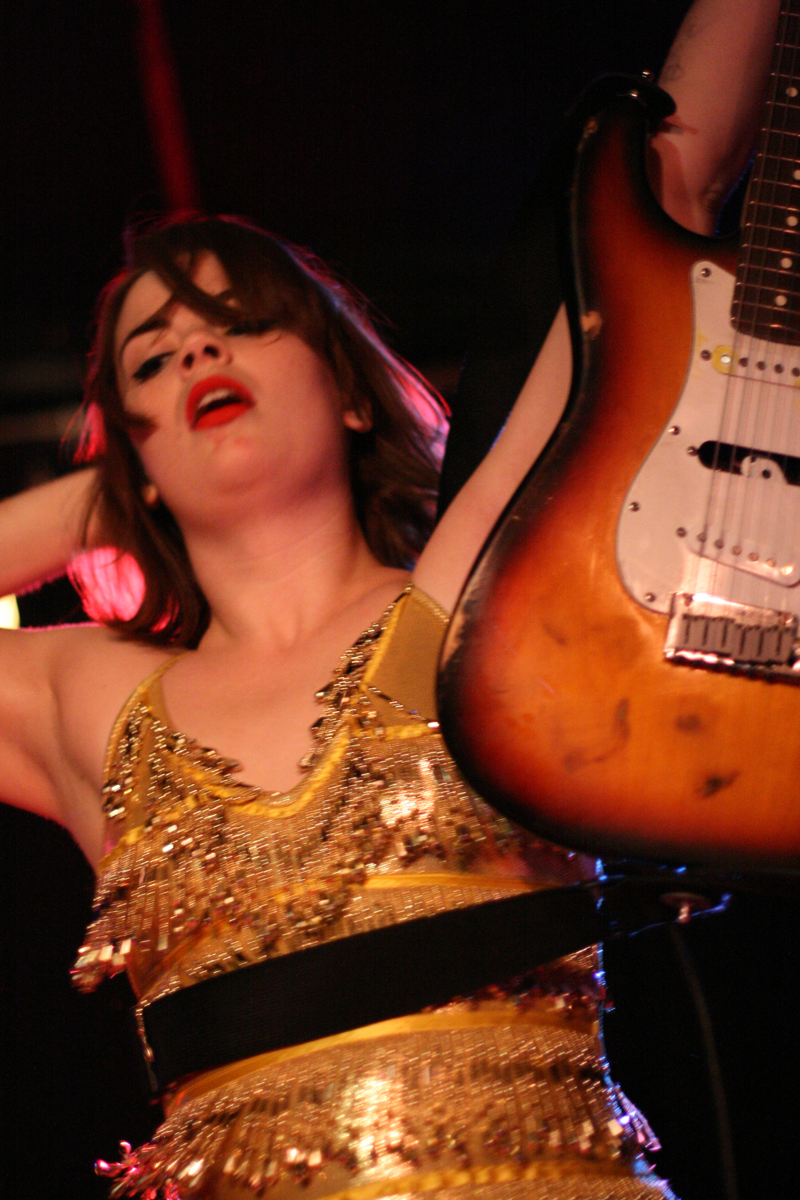 Ida Maria playing at New York.